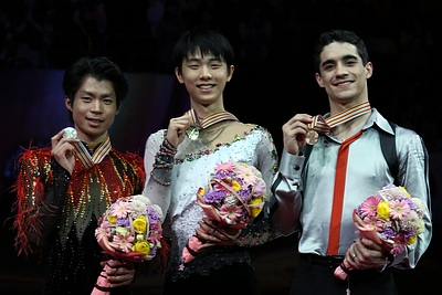 The Men's podium at the 2014 World Championships.From left: Tatsuki Machida (2nd), Yuzuru Hanyu (1st), Javier Fernandez (3rd).